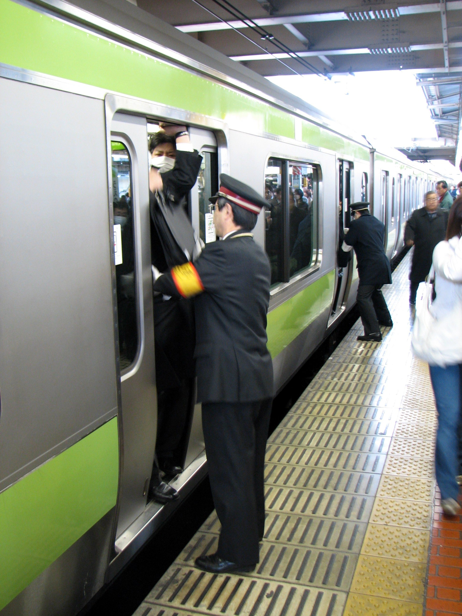 Rush hour at Ueno station, Yamanote line.